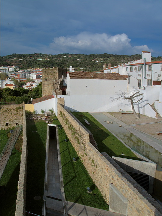 Portalegre City Walls